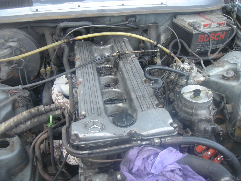 Mercedes M110 Engine. Engine seems to be poorly maintained and in bad condition.